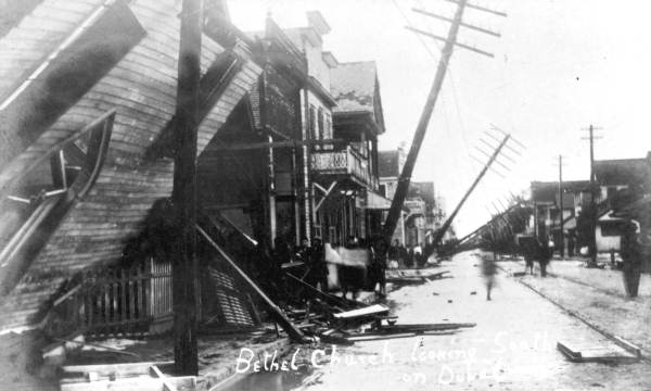 Damage along Duval Street in Key West, Florida, following a hurricane in October 1909